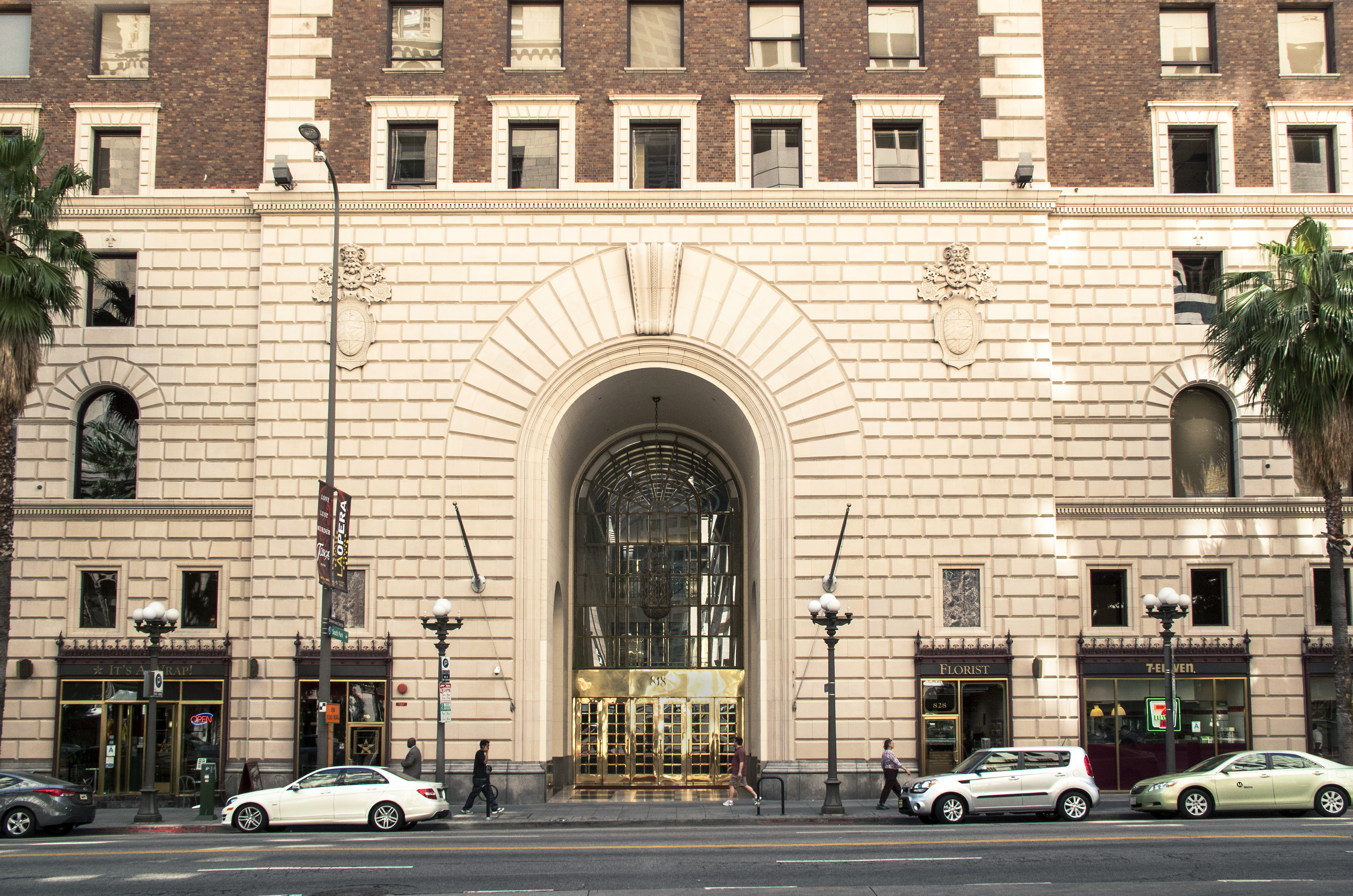 Entrance to Barker Brothers Building, 818 W. 7th Street, Los Angeles, California. Los Angeles Historic-Cultural Monument #356.